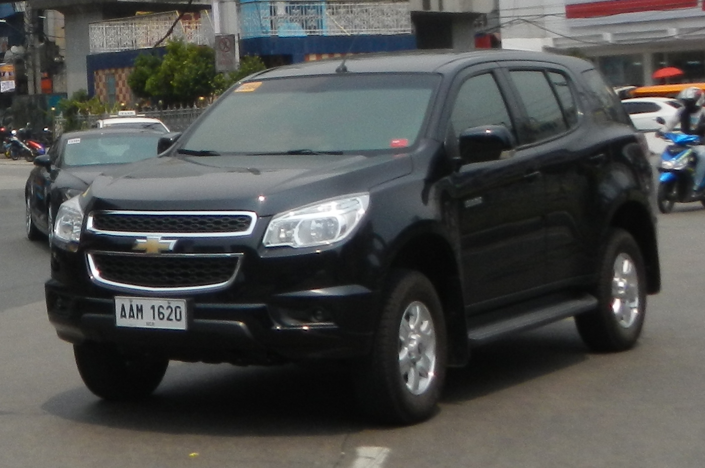 Chevrolet TrailBlazer (second generation)